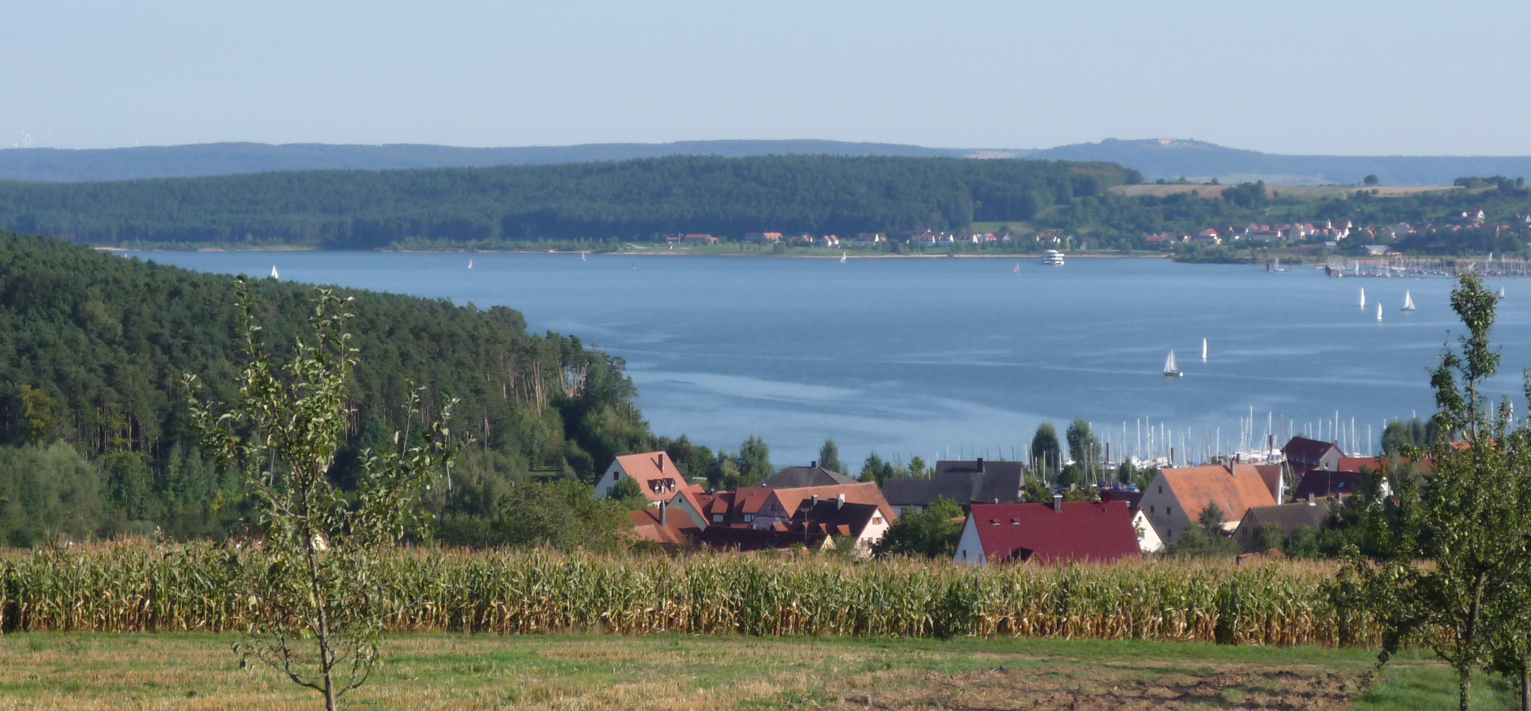 Big Brombach Lake